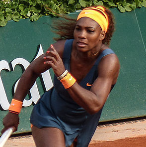 2ème tour Roland Garros 2013 : Serena Williams (USA) def. Caroline Garcia (FRA)